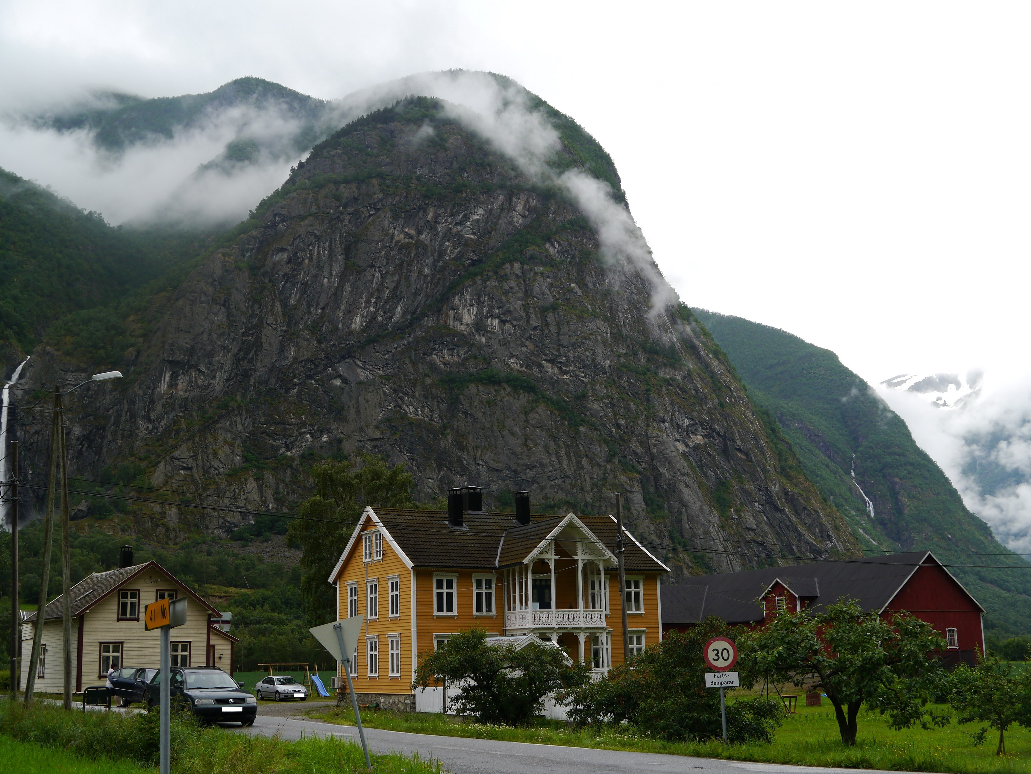 Lærdalsøyri, Sogn og Fjordane County, Western Norway